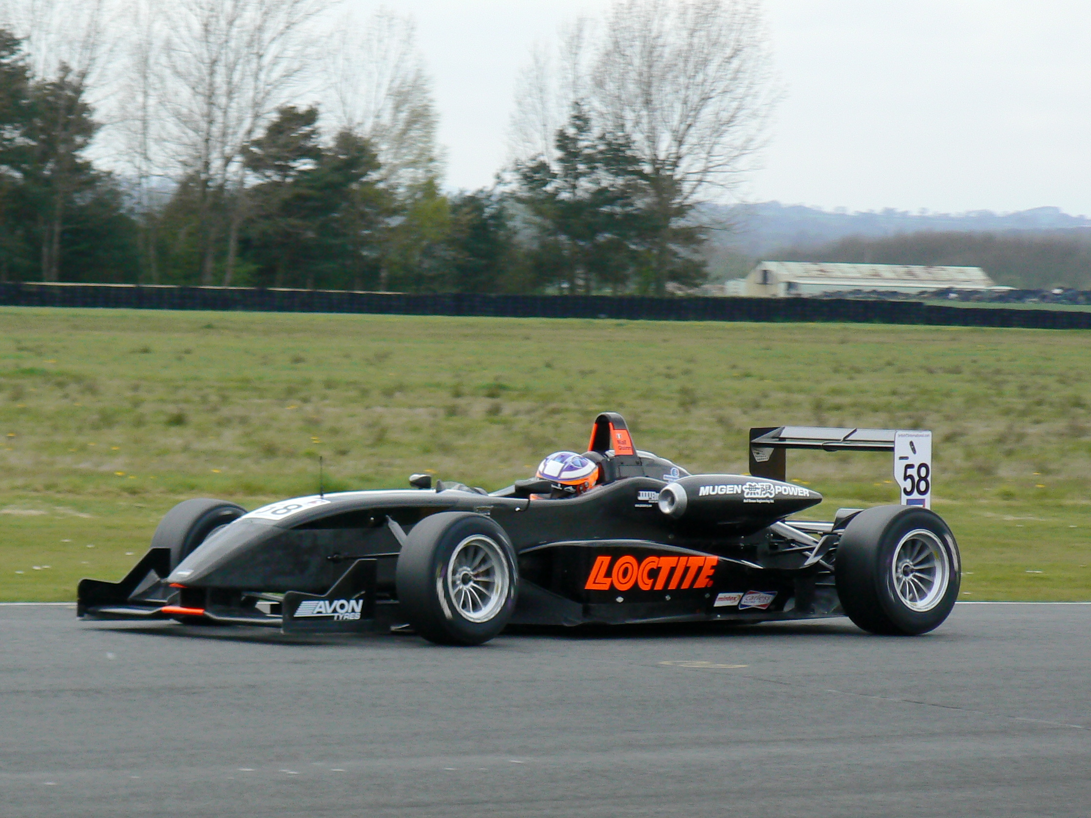 Niall Quinn driving for Team Loctite at the Croft round of the 2008 British Formula Three Championship.